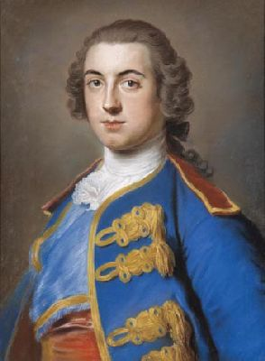 Portrait of Henry Seymour Conway (1721-1795)